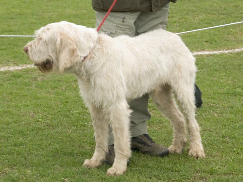 Solid white Spinone italiano.